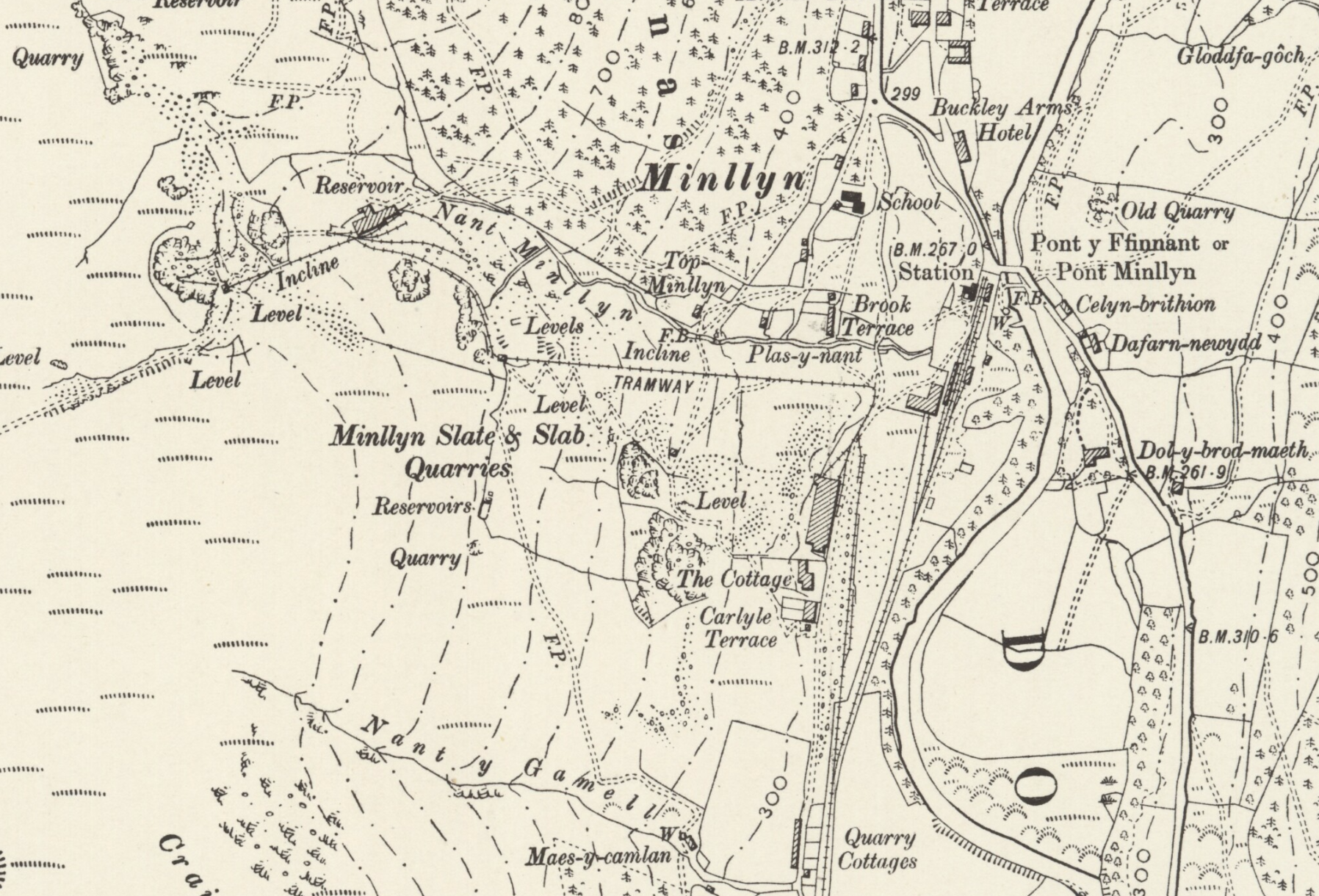 Extract of the Ordnance Survey Merionethshire XXXVIII.SE map, surveyed in 1900, showing Dinas Mawddwy railway station